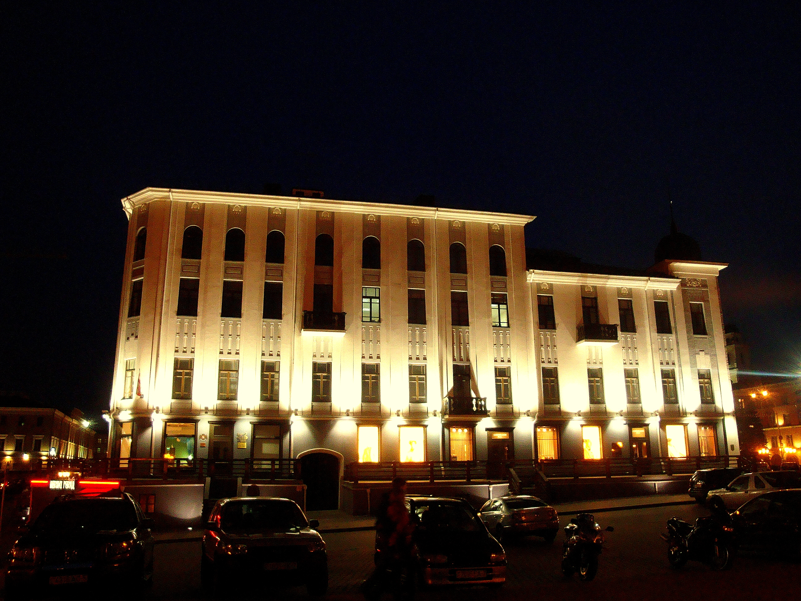 House at Minsk (Embassy of Georgia)